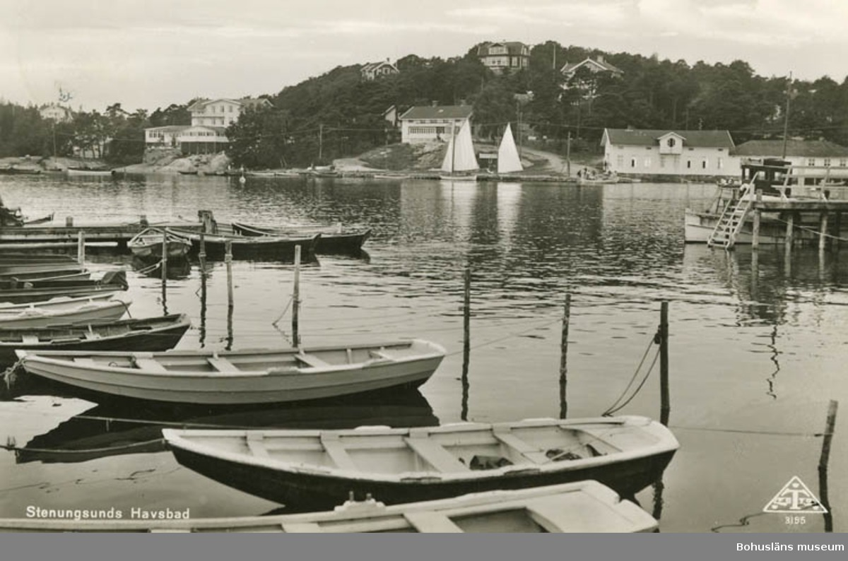 Part of Stenungsön viewed from Stenungsund.